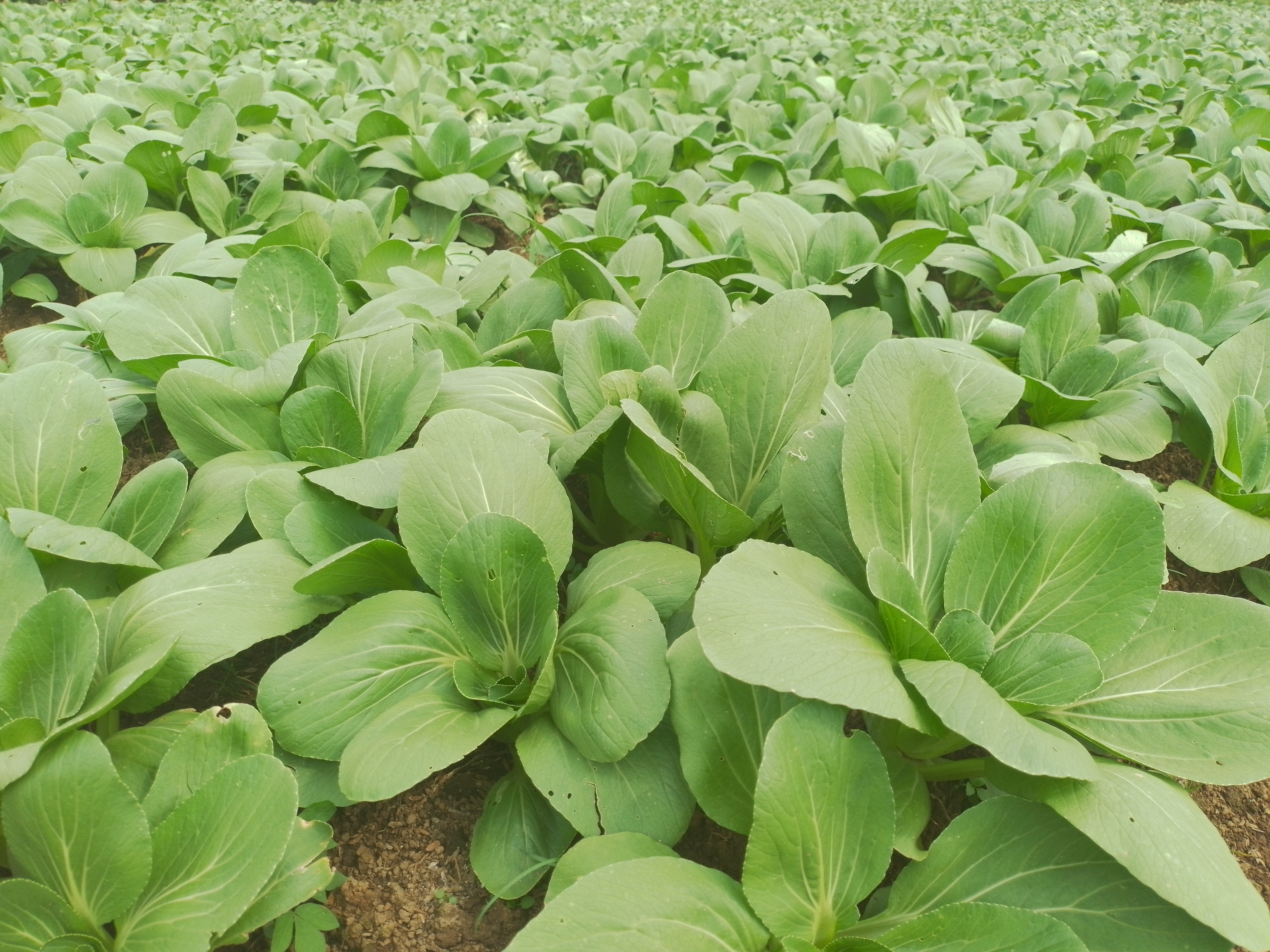 Bok Choy growing in a garden.